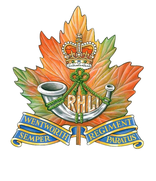 On an autumnal maple leaf proper a bugle Argent stringed Vert enclosing the letters RHLI Or and ensigned by the Royal Crown proper, the base of the leaf surmounted by two scrolls Azure edged and inscribed WENTWORTH REGIMENT and SEMPER PARATUS in letters